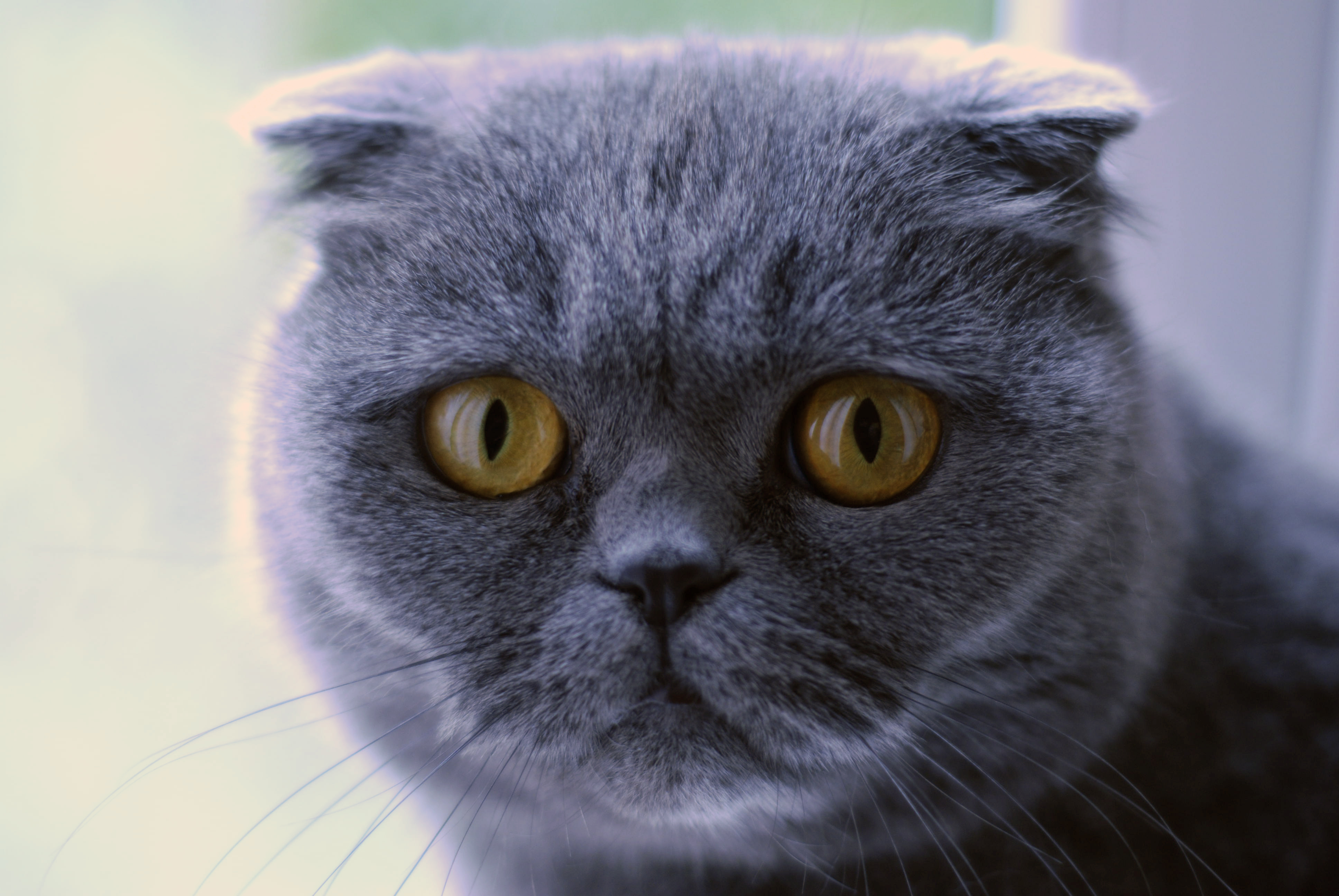 Scottish Fold cat (blue) in a moscow region